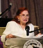 Dr. Verna Linzey Speaks at Singapore Pastors' Conference July 1, 2014